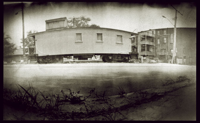 Pinhole: Depot Town Caboose